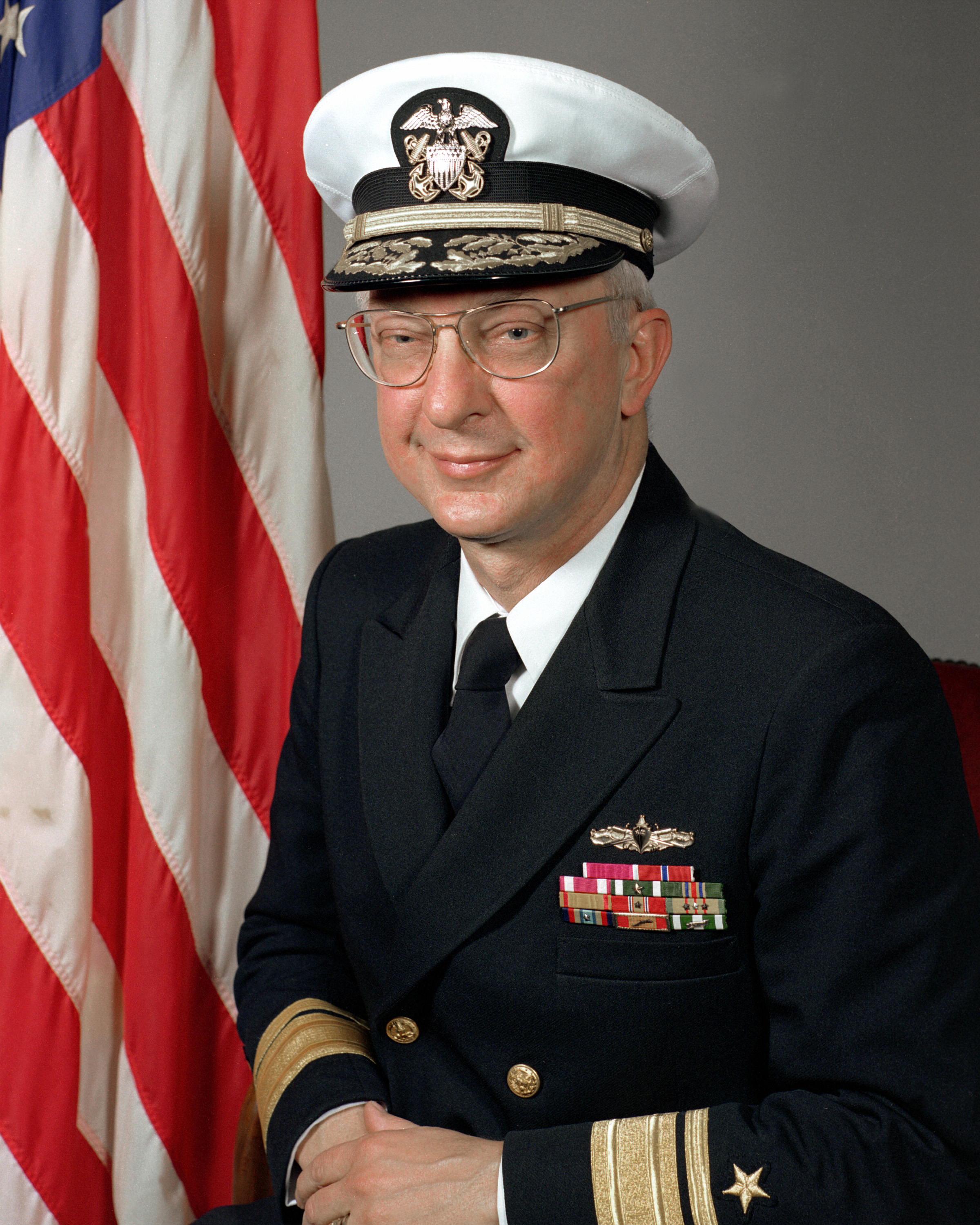 RADM John W. Nyquist, USN(covered) 04/08/1981